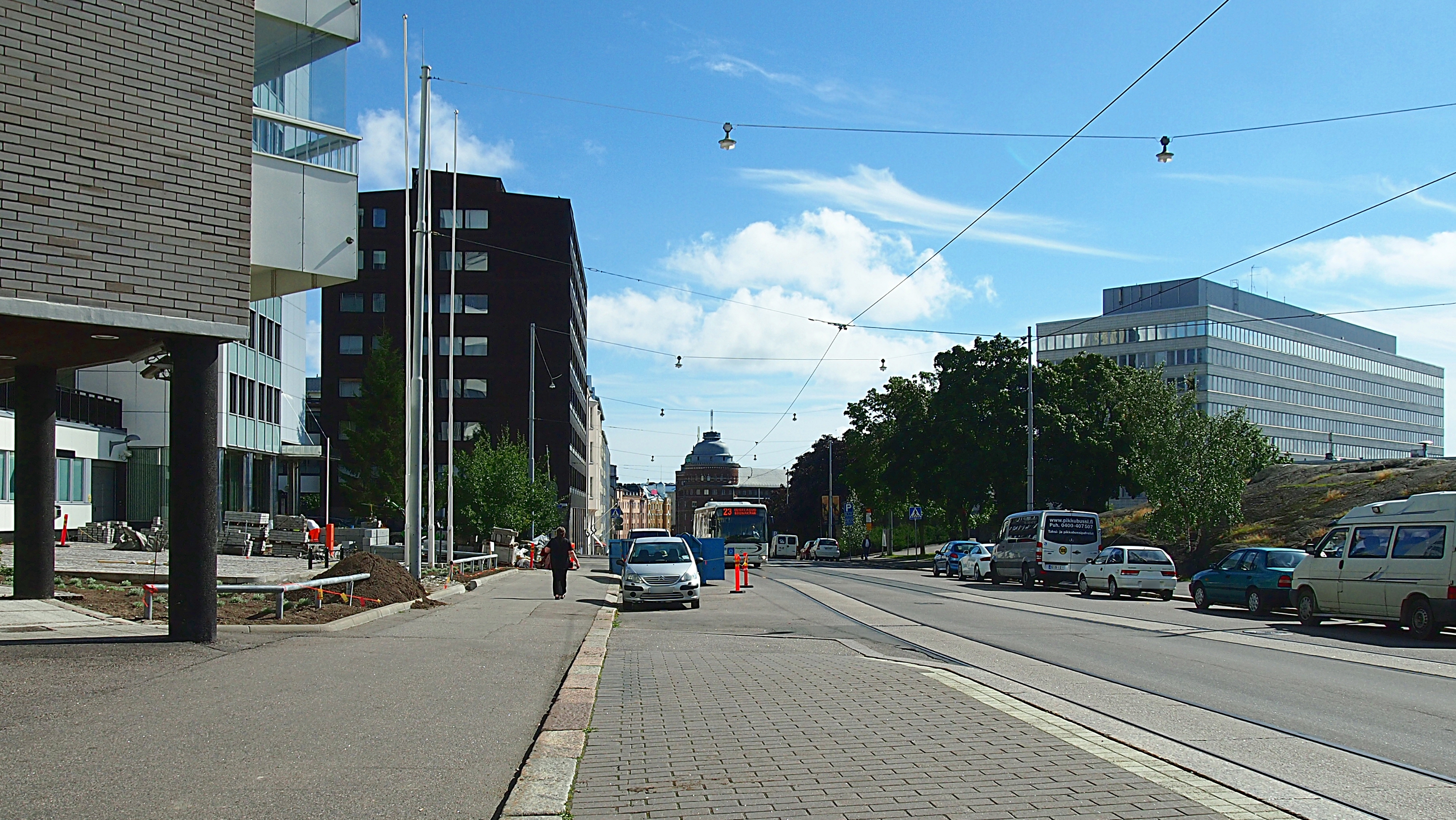 Toinen linja. A street in Kallio, Helsinki, Finland. Direction south-east.